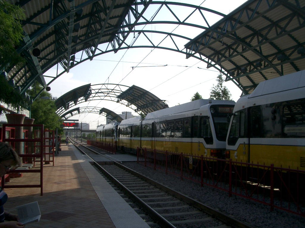 North bound train at Arapaho Station in Richardson, TX. Dallas Area Rapid Transit (DART) Red Line.